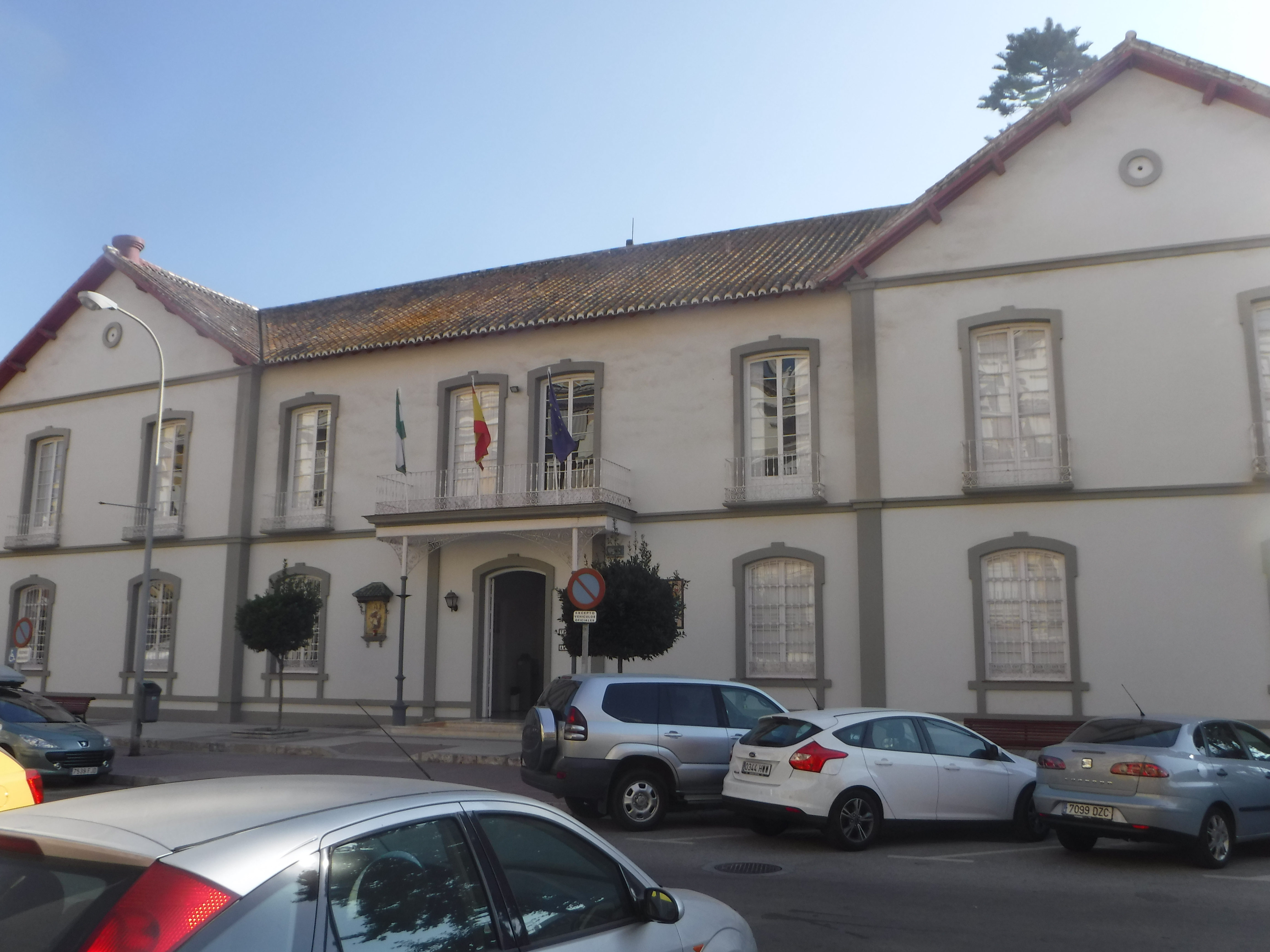 Casa Larios, Torre del Mar